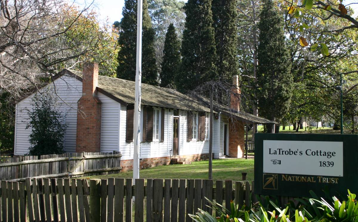 La Trobe's Cottage in Kings Domain, Melbourne.